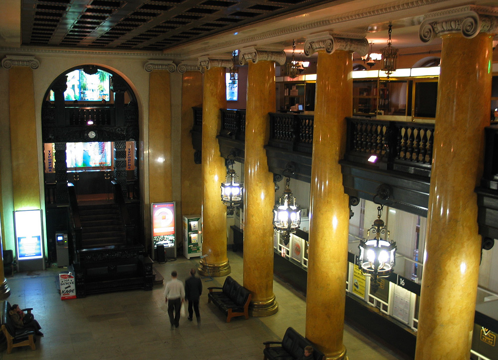 inside Wawelberg Bank building